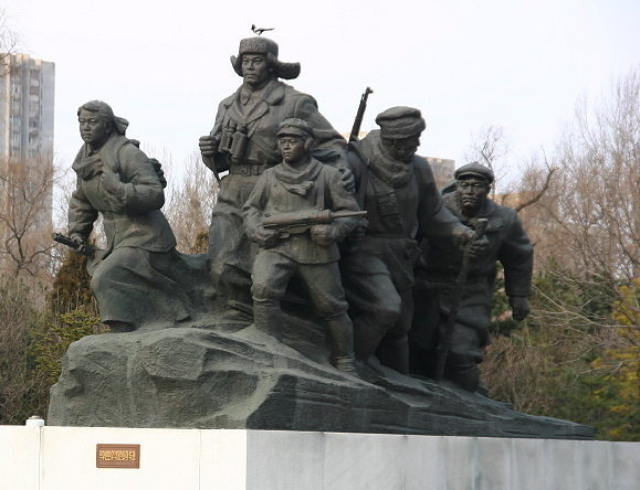 Victorious Fatherland Liberation War Museum, Pyongyang (조국해방전쟁승리기념탑 중 군상 적후 인민유격대원들의 투쟁 - 유격대원 클로즈업)